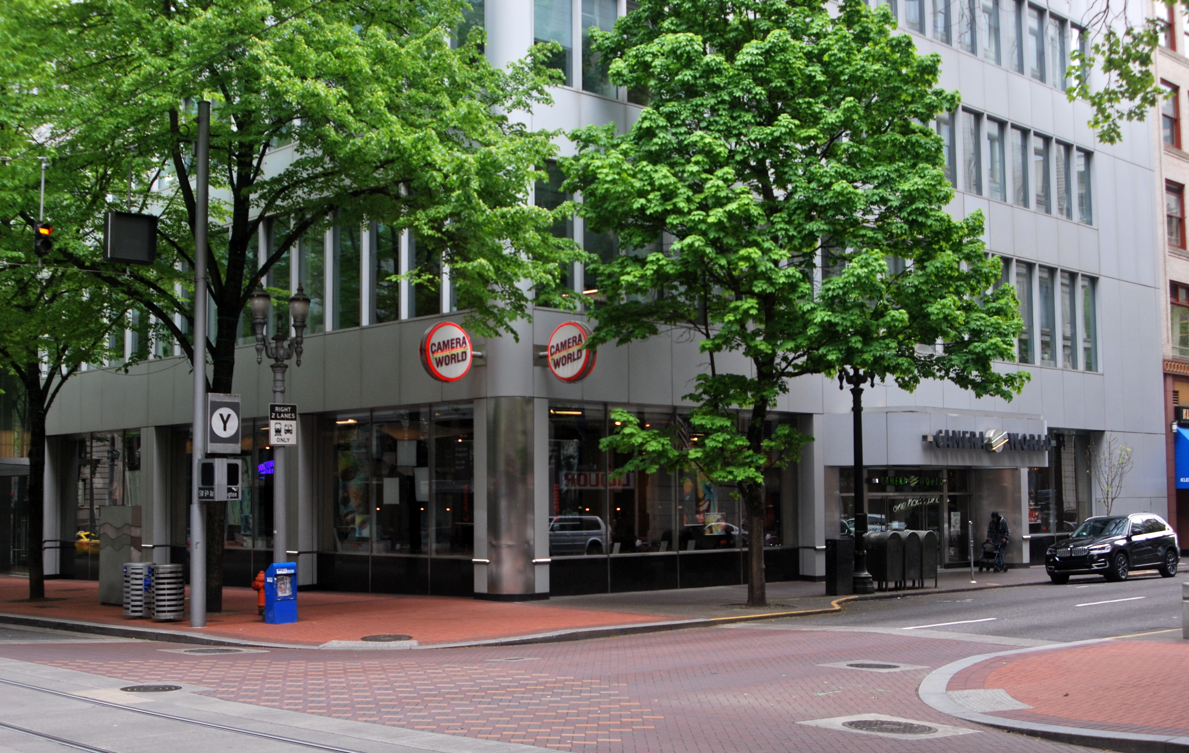 Camera World's retail store, at 6th & Washington in downtown Portland, Oregon. Although now only a brand name, Camera World was an independent company from 1977 to 2002.